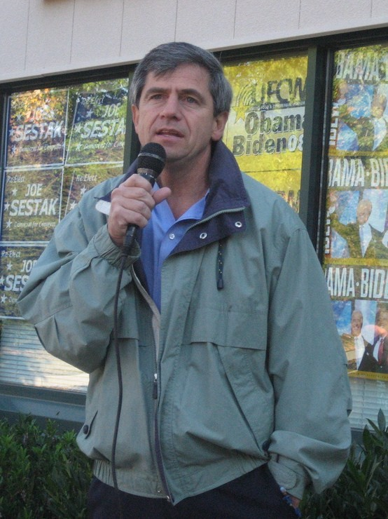 Congressman Joe Sestak at the Delaware County, Pennsylvania Labor Walks For Barack Obama on October 18th, 2008